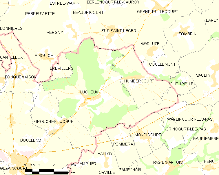 Map of French municipality Lucheux